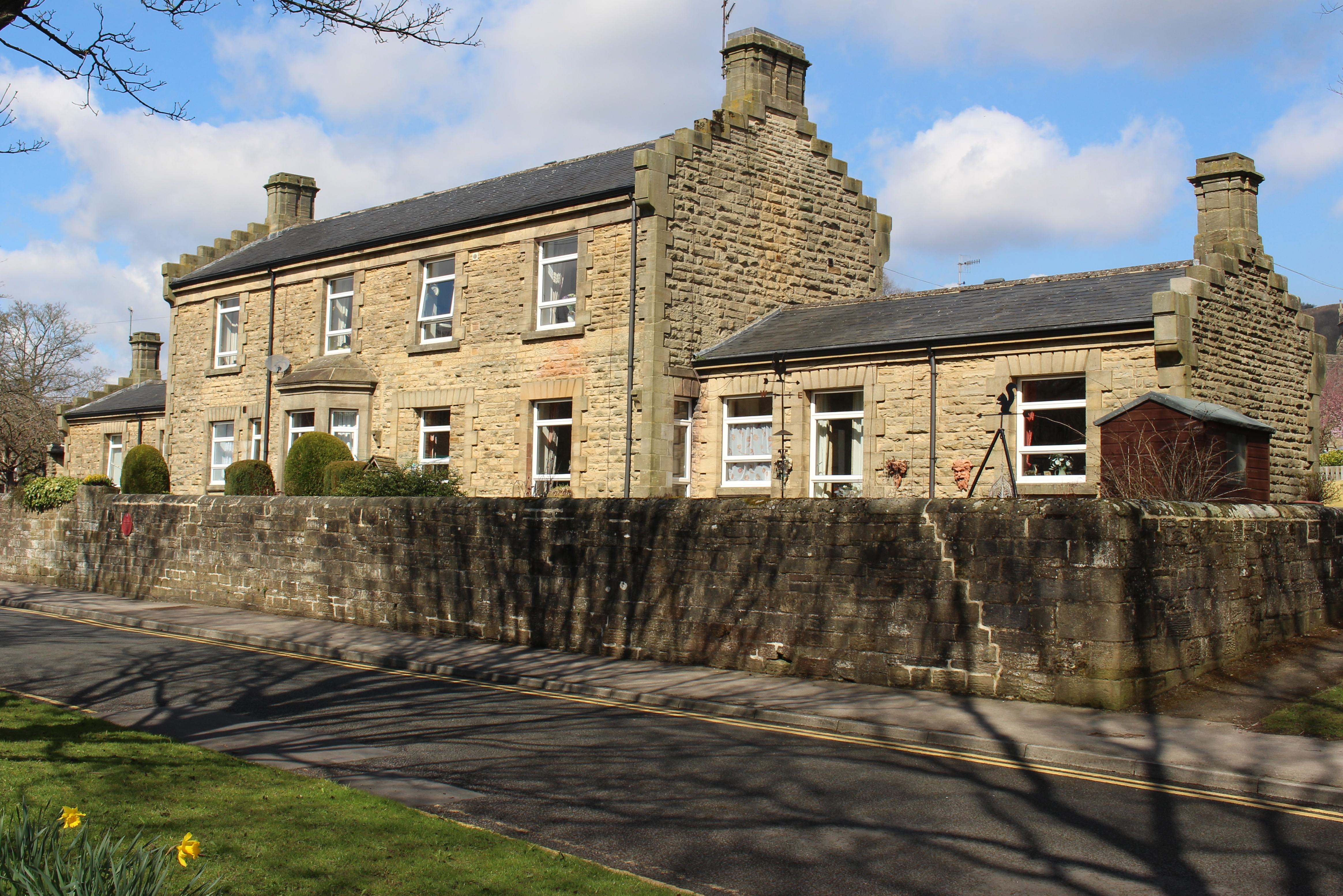 The station buildings at Pateley Bridge, North Yorkshire, England photographed 50 years after the station closed.